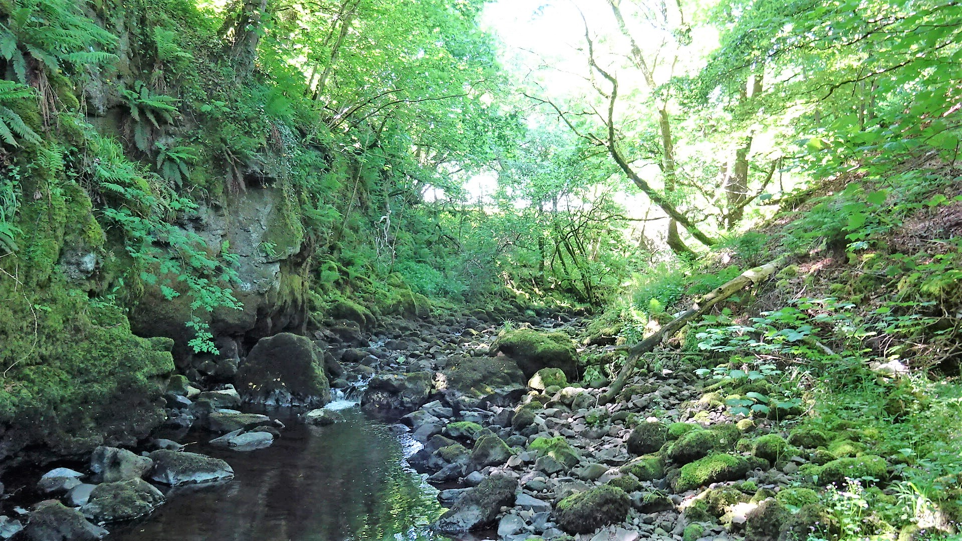 Duchal Castle glen & the Burnbank Water, Duchal Bridge area, Kilmacolm.